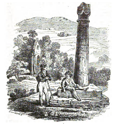 Engraving taken from a watercolour sketch of the Pillar of Eliseg